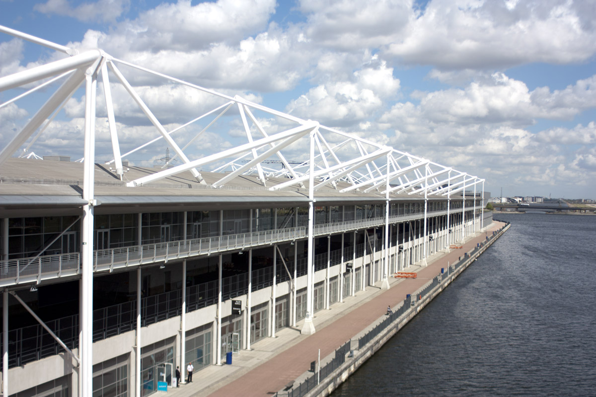 View from Royal Dock Bridge. The sourthern side of Excel centre and the northern bank of Excel Marina.